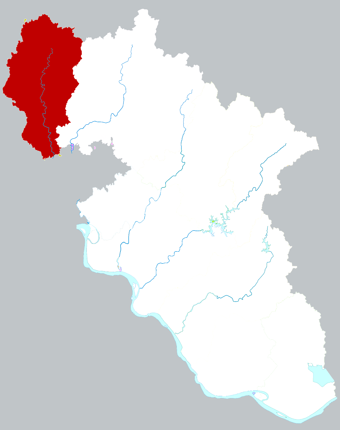 Location of Hong'an county in Huanggang city, China